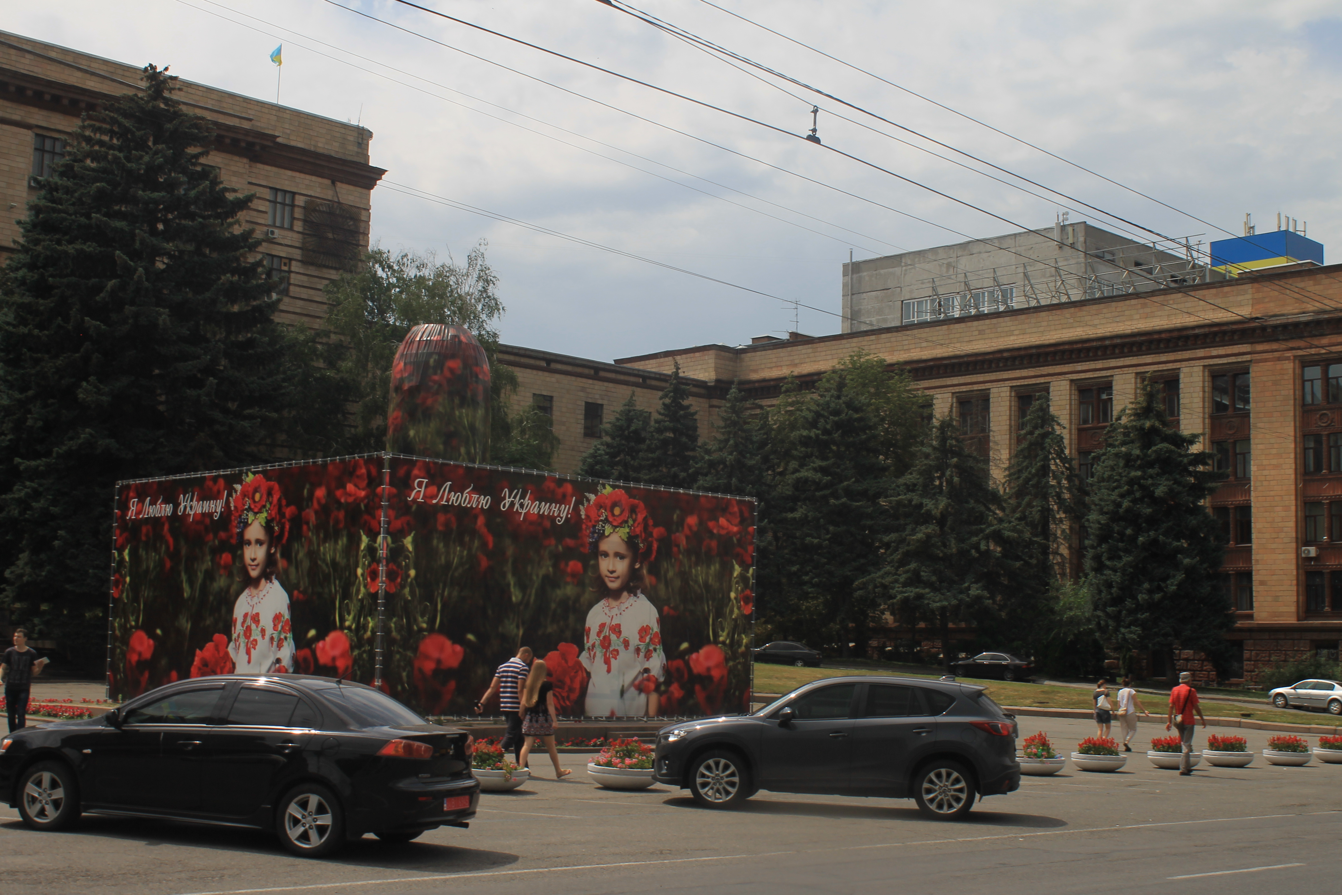 Maidan heroes Square in Dnipro